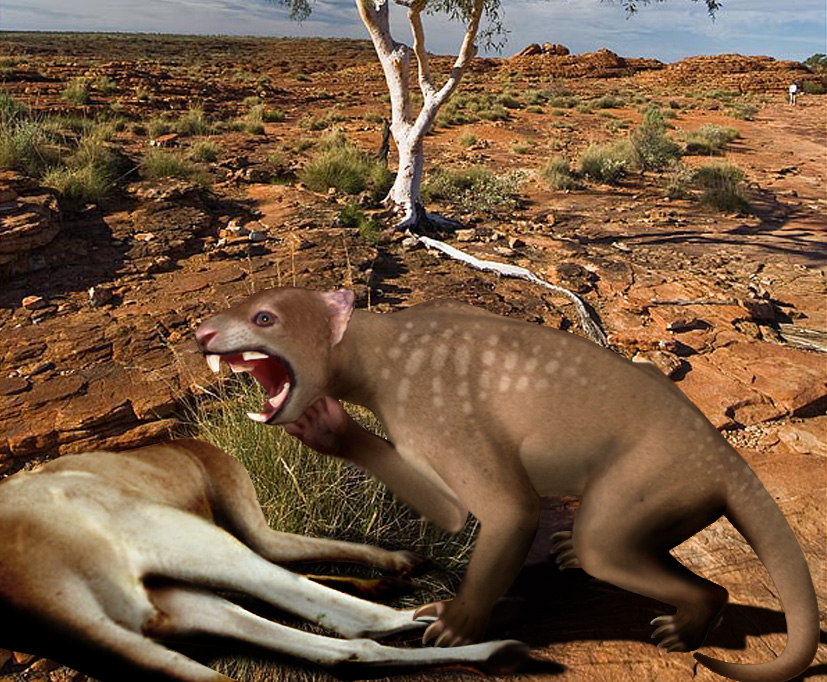 Thylacoleo